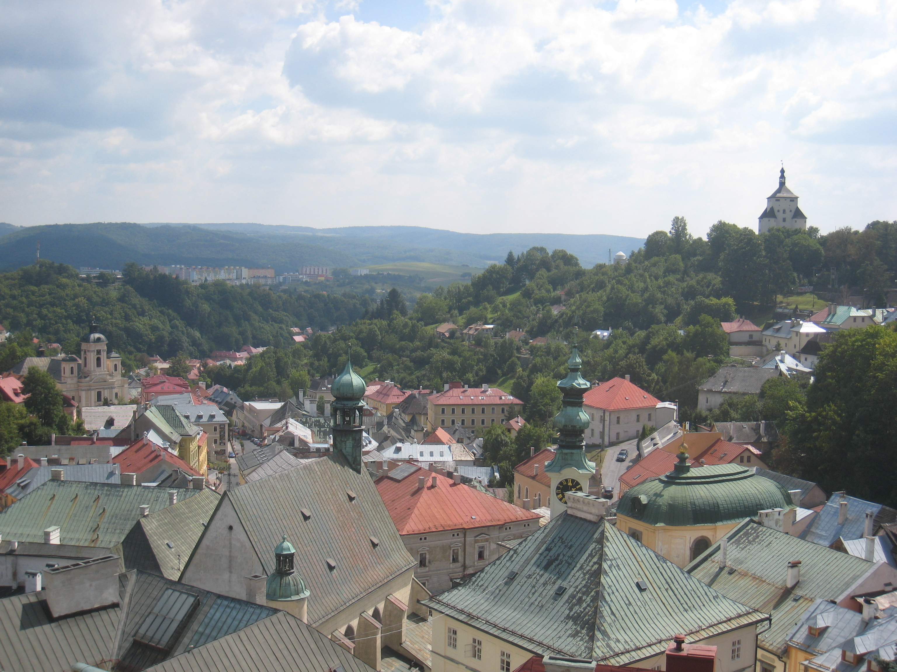 Landscape from the entrance tower of Old Castle (Stary Zamok). On the left the Parish Church. In the centre (foreground) the belltowers of Saint Catharine's Church and of the Town Hall. On the right, on the hill, the New Castle (Novy Zamok).